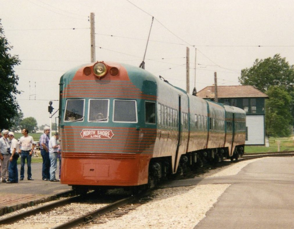 Passengers boarding the restored Electroliner at Illinois Railway Museum Photo by Sean Lamb (User:Slambo)